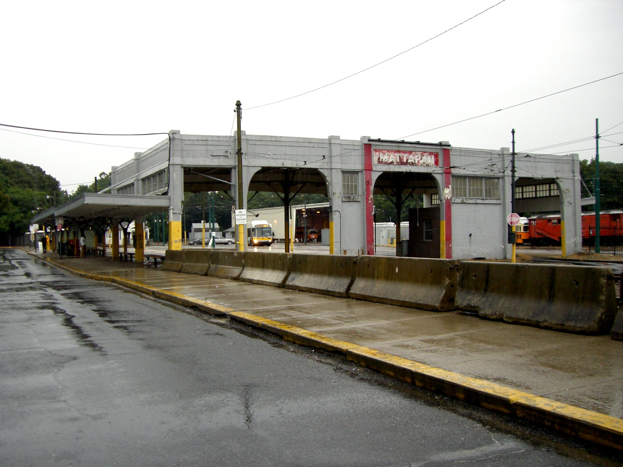 Mattapan MBTA station before the 2007 renovation. This photo is from the northern bus loop and looks southeast onto the platform area.